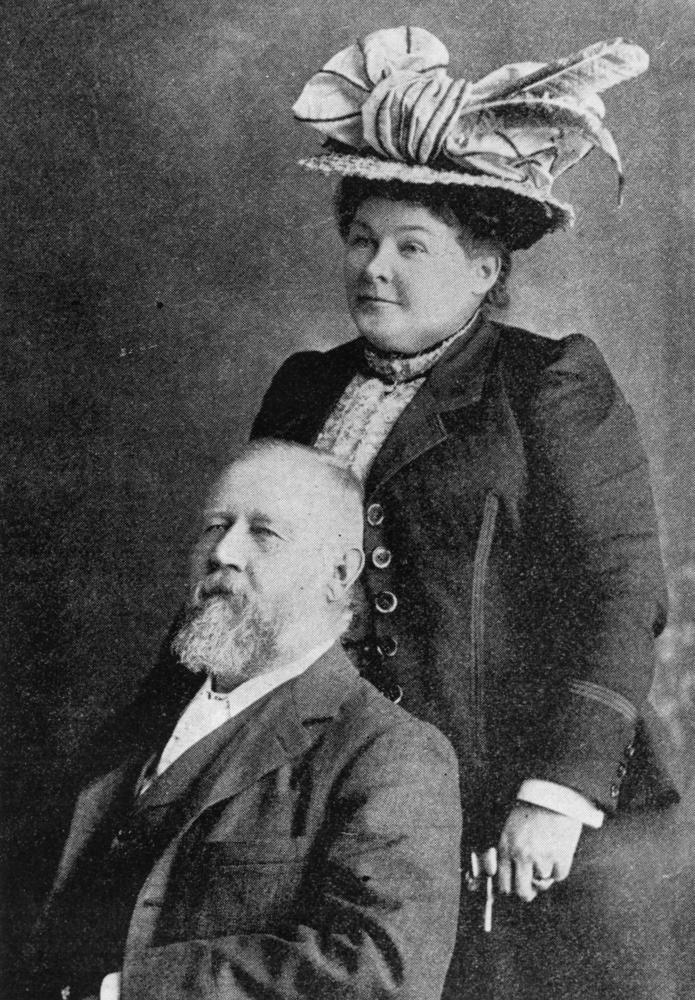 Lumley-Hill Family. Mr C. Lumley-Hill and Mrs Hill. (Description supplied with photograph).